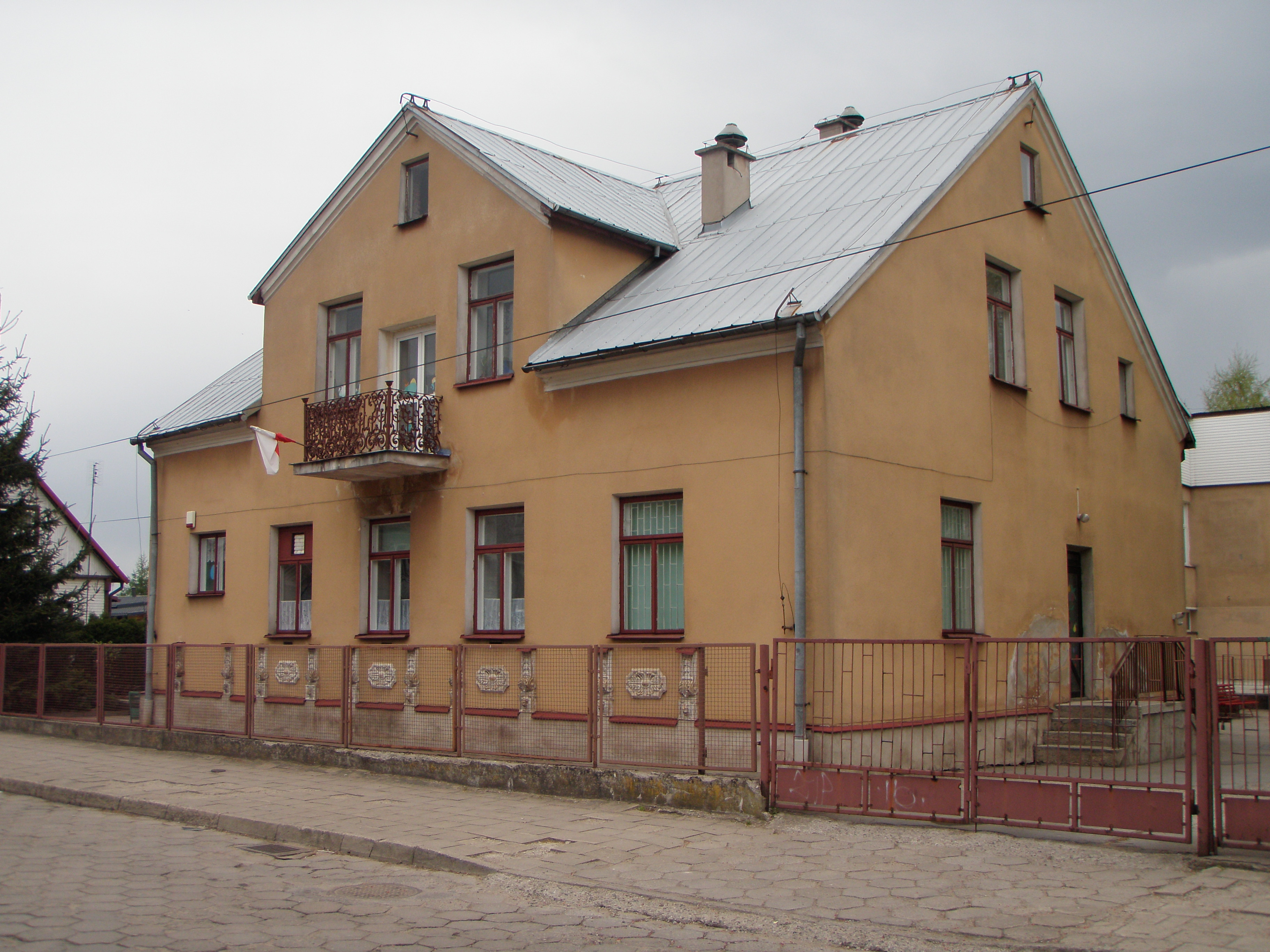 2nd Kindergarten in Augustów in Poland